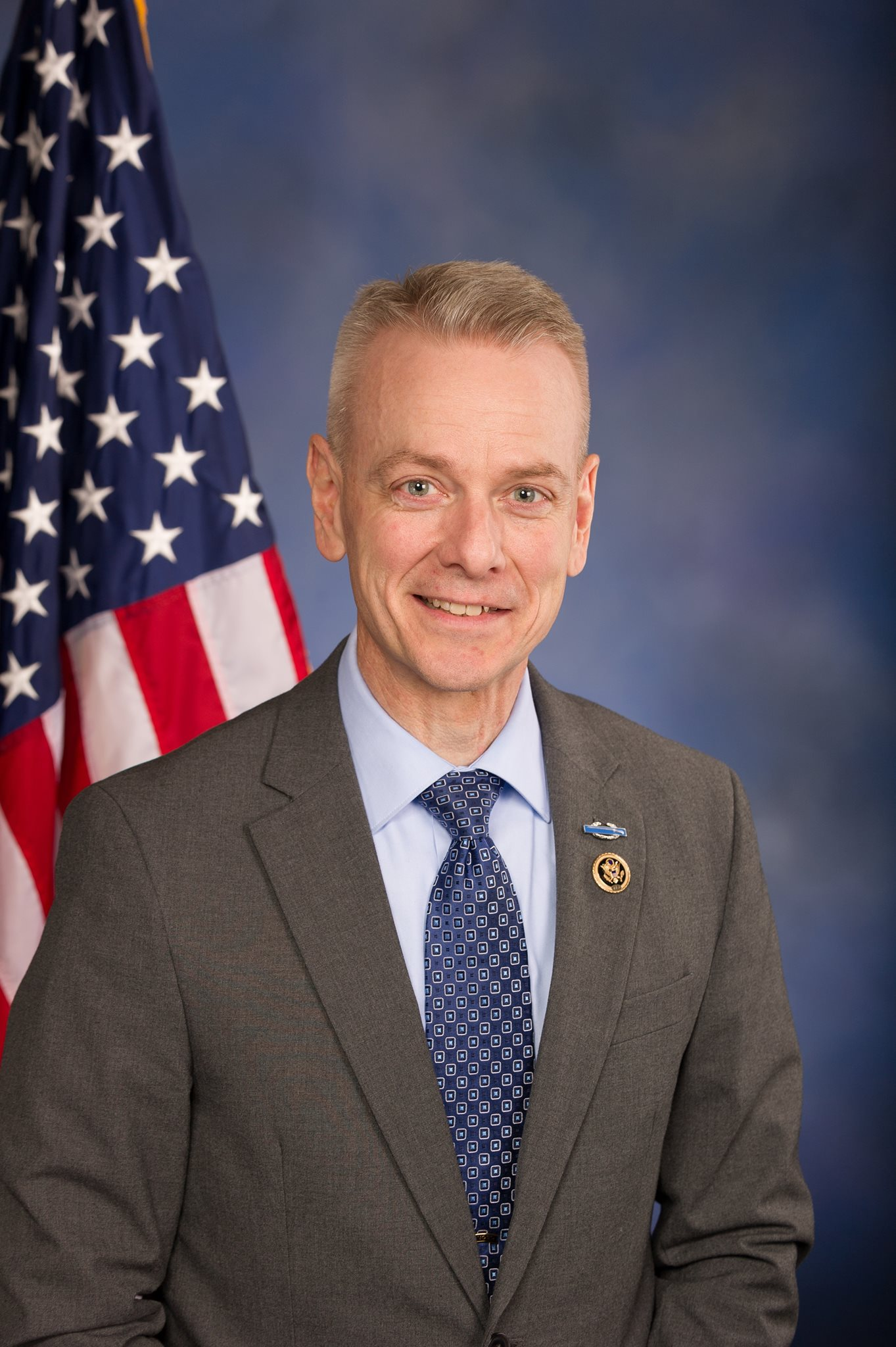 Steve Russell official photo, 114th Congress